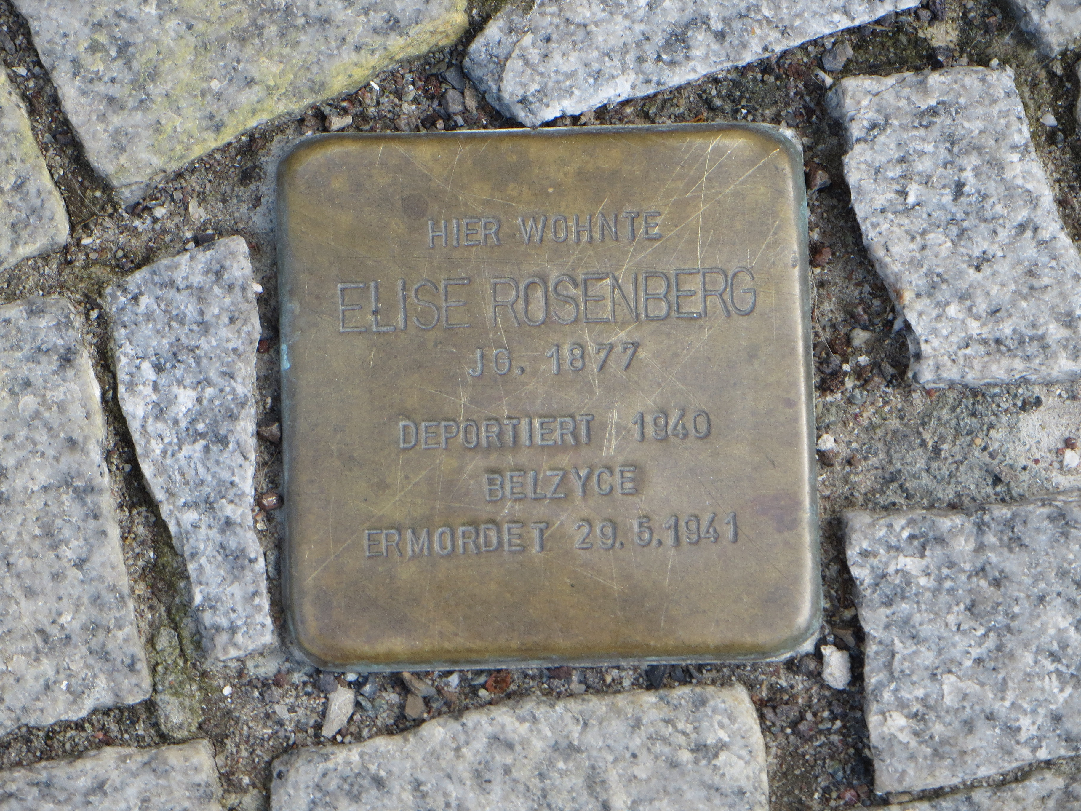 Knopfstrasse 18 in Greifswald: Stolperstein commemorating Elise Rosenberg